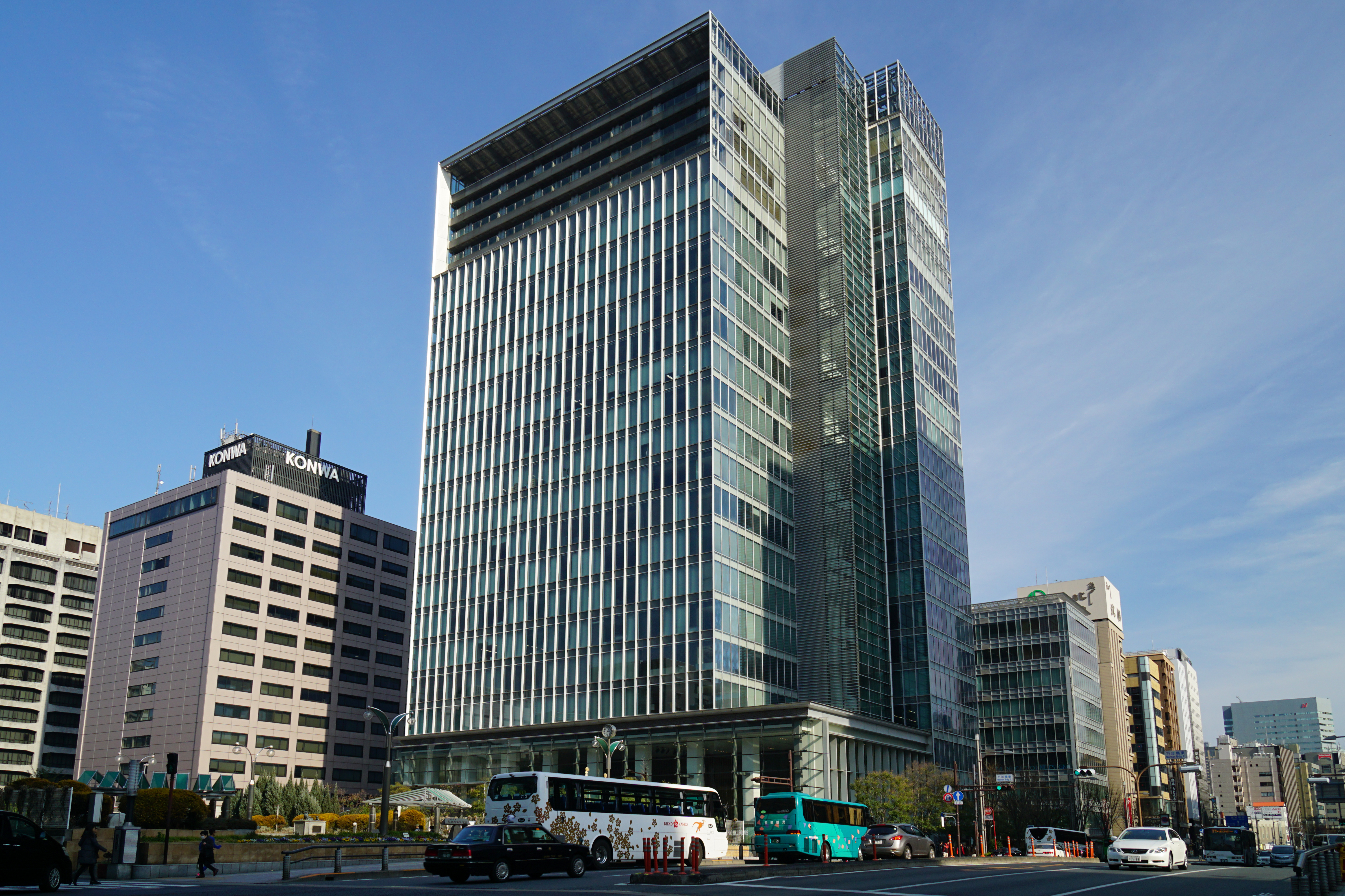 At Ginza in Tokyo, Japan